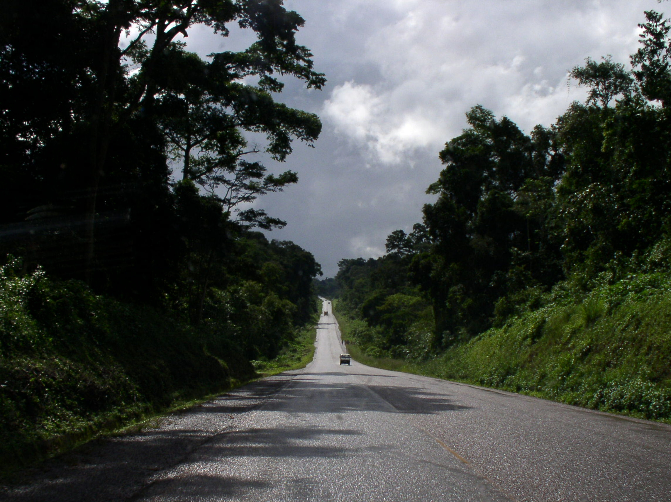 Road to Jinja, Uganda, passing through the Mabira Central Forest Reserve